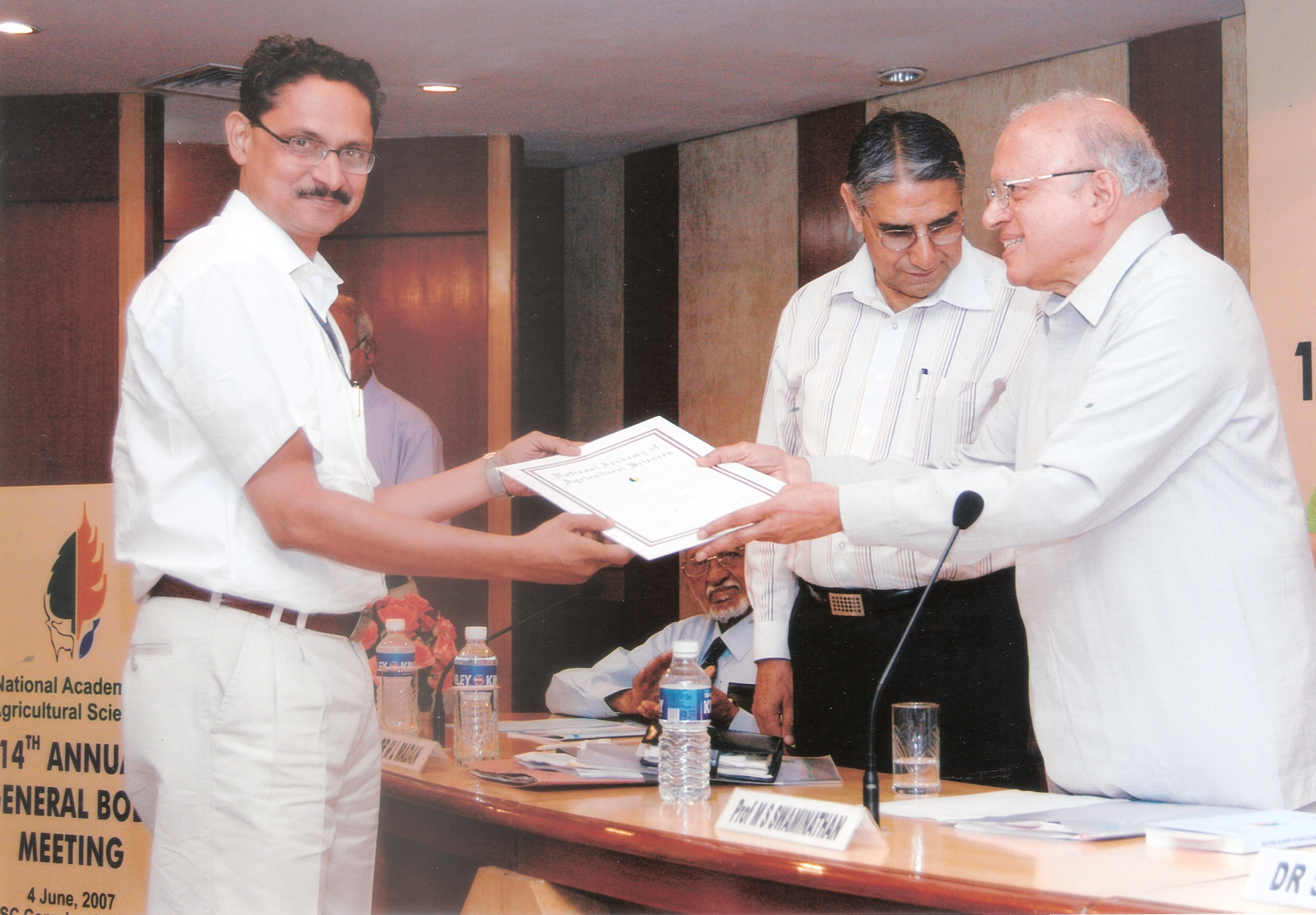 Prof. A. M. Kayastha receiving the Fellow Award of National Academy of Agricultural Sciences, India (NAAS) from Prof. M. S. Swaminathan (Father of the Green Revolution in India)